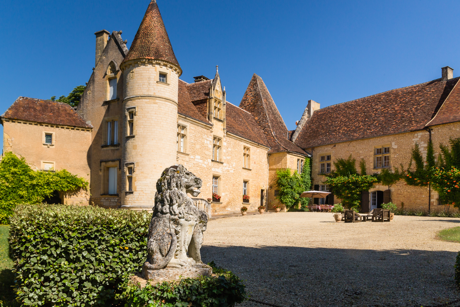 MONSEC CASTLE (FRANCE - DORDOGNE)